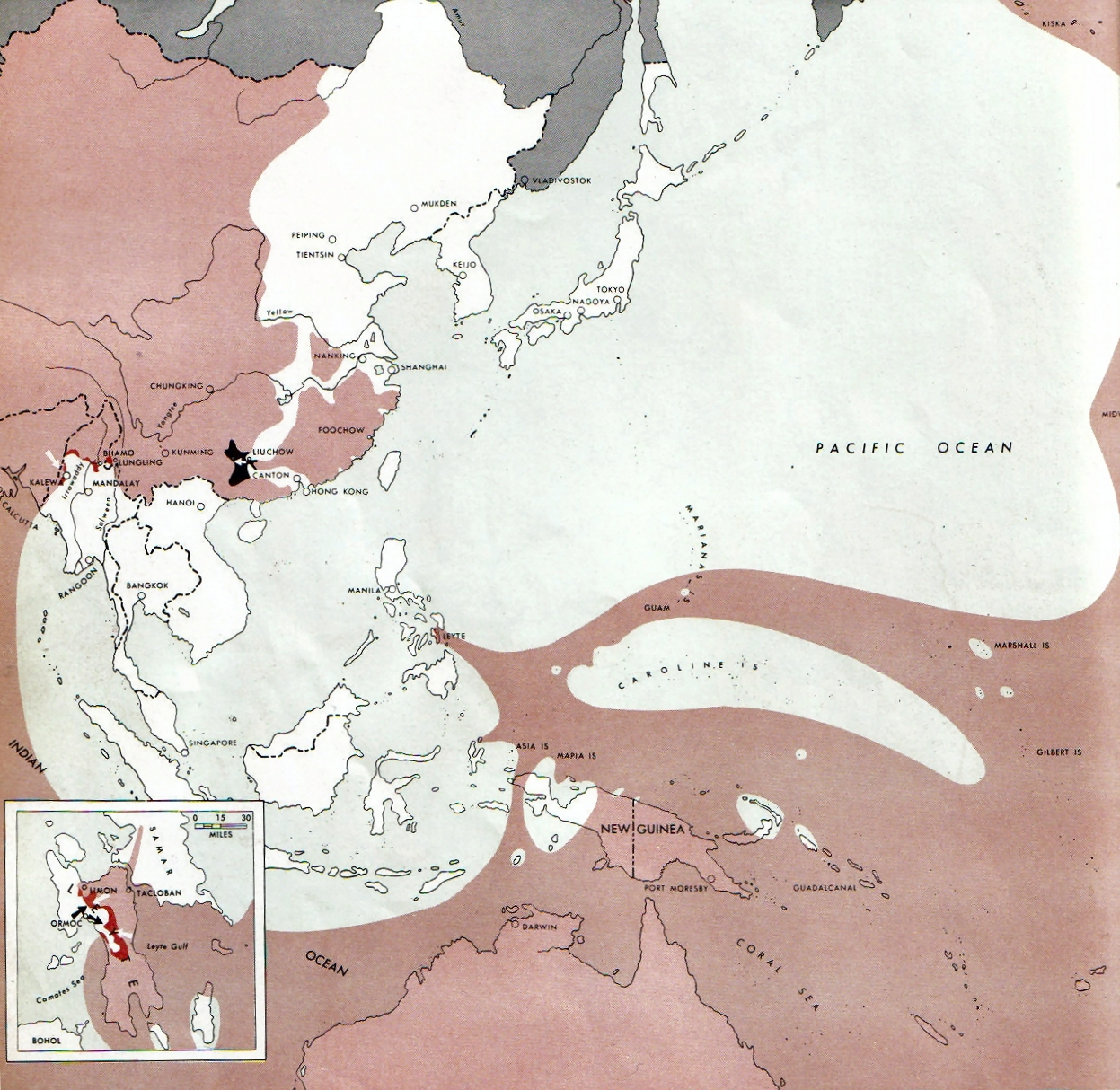 Map of the front against Japan as of 1 Dec 1944: This map is taken from the source "Atlas of the World Battle Fronts in Semimonthly Phases to August 15th 1945: Supplement to The Biennial report of The Chief of Staff of the United States Army July 1, 1943 to June 30 1945 To the Secretary of War". (See Cover, Forward and Map details)